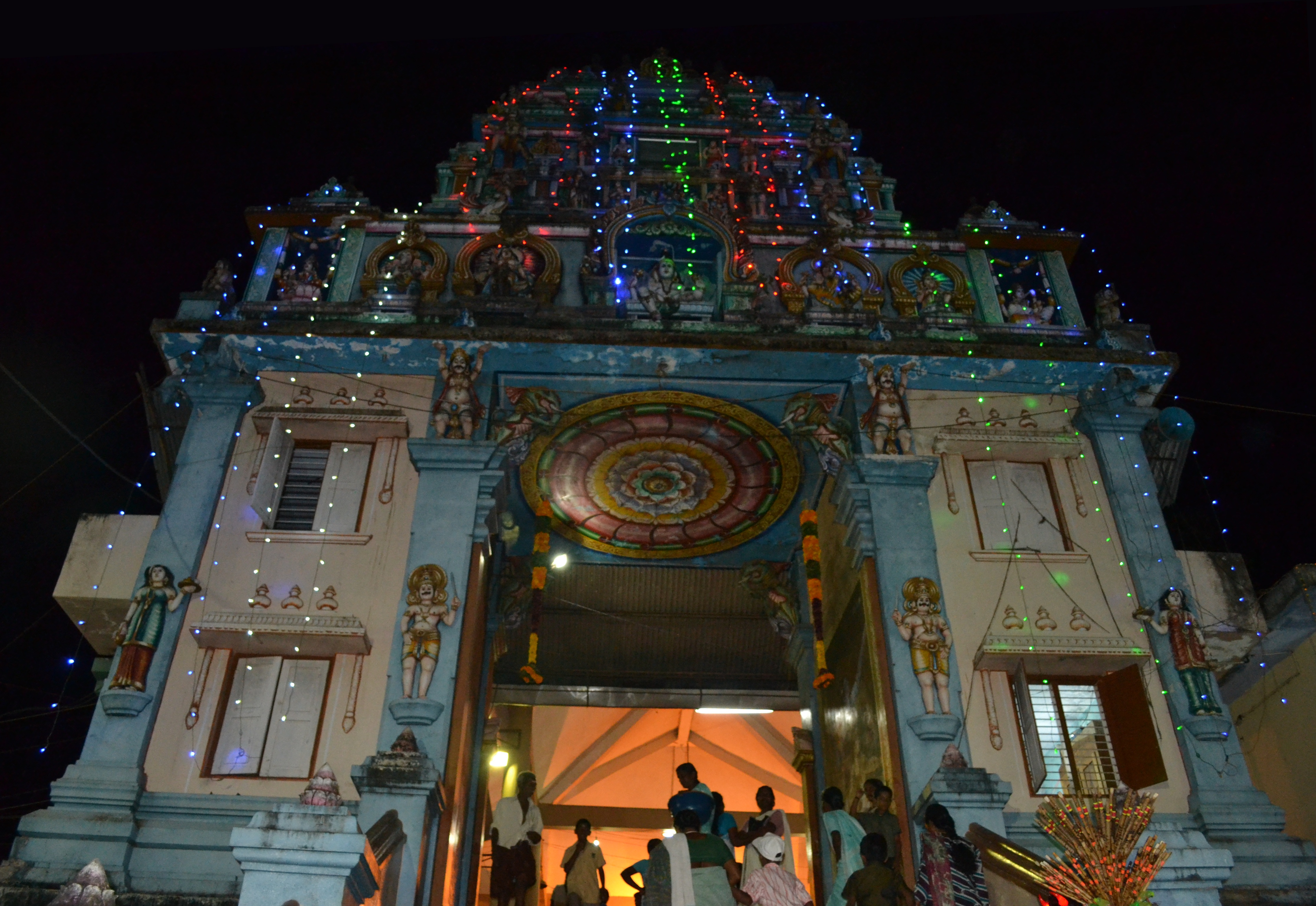 siva temple pathanamthitta , kerala